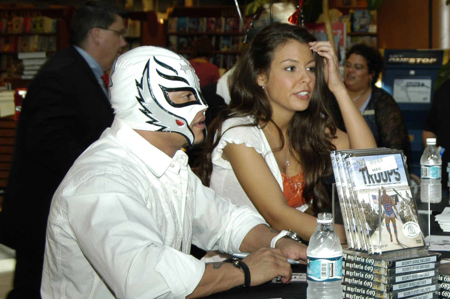 World Wrestling Entertainment (WWE) superstar Rey Mysterio and WWE Smack Down diva Joy Giovanni.